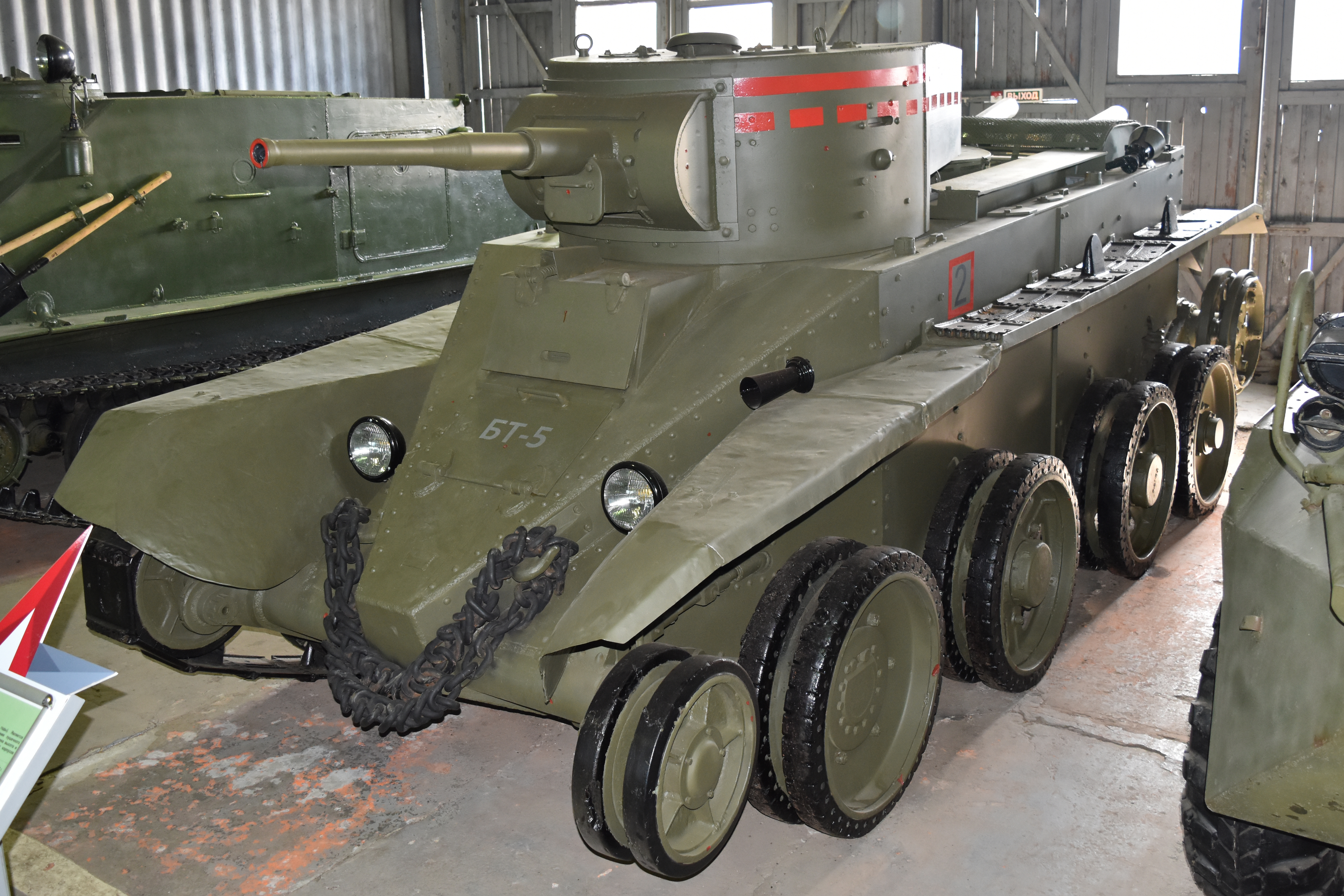 Manufacturer:- KhPZ Karkov Production:- 1,884 Main Armament:- 45mm Model 34 gun The ‘BT’ designation stood for ‘Bystrokhodny tank’ which literally means ‘fast moving tank’ or ‘high-speed tank’. The BT-5 saw action in the Spanish Civil War, in the Far East against the Japanese and also in eastern Poland. In the ‘Winter War’ in Finland their thin armour proved to be their downfall and this was the types last frontline service. The BT-5 could run with or without tracks. This example is preserved on its wheels ready for road transit and is on display in what is best known as Hall 4 of the Kubinka Tank Museum, although its official title is now Pavilion 4 in Area 2 of the Park Patriot museum. Kubinka, Moscow Oblast, Russia. 24th August 2017.